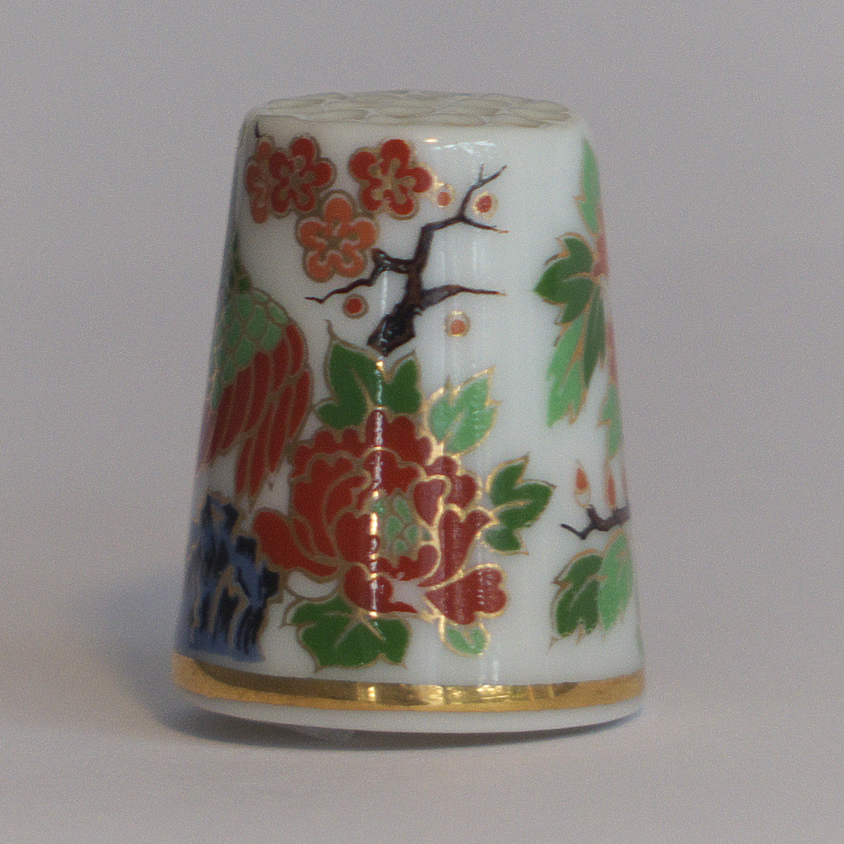 thimble with flower from porcelain